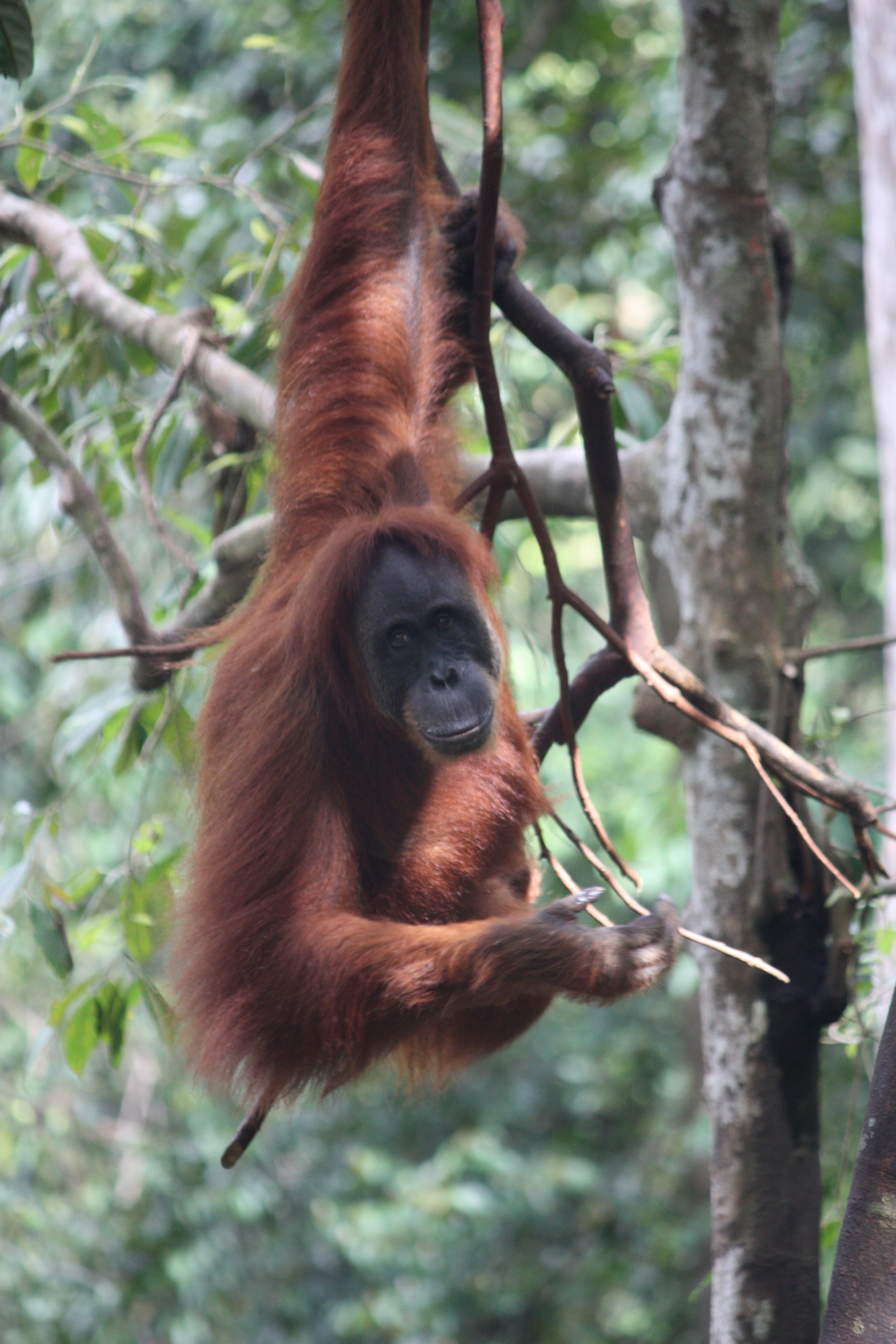 Bukit Lawang, orangutan at the feeding platform